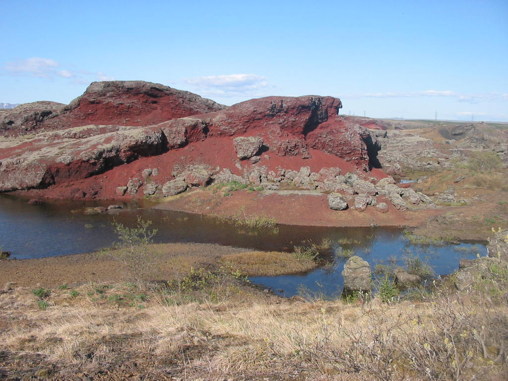 Rauðhólar (icelandic Red hills) - remnants of a cluster of pseudocraters in Elliðaárhraun lava fields on the south-eastern outskirts of Reykjavík, Iceland. The age of Rauðhólar is about 5200 years. Originally there were over 80 craters but the gravel from them was taken and used in constructions. Most of the material was taken around World War II for constructions such as Reykjavík airport and road building.